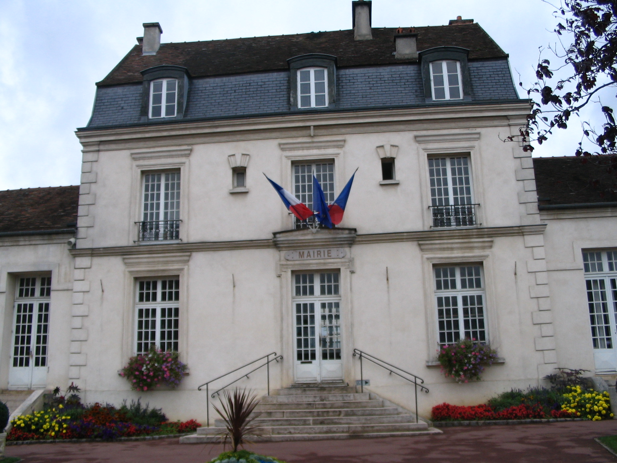 Town hall of Villecresnes, Val-de-Marne, France.